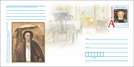 Artistic envelope with original stamp "Painting. V. I. Stelmashonok" from the series "Painting", Belpost, 2015